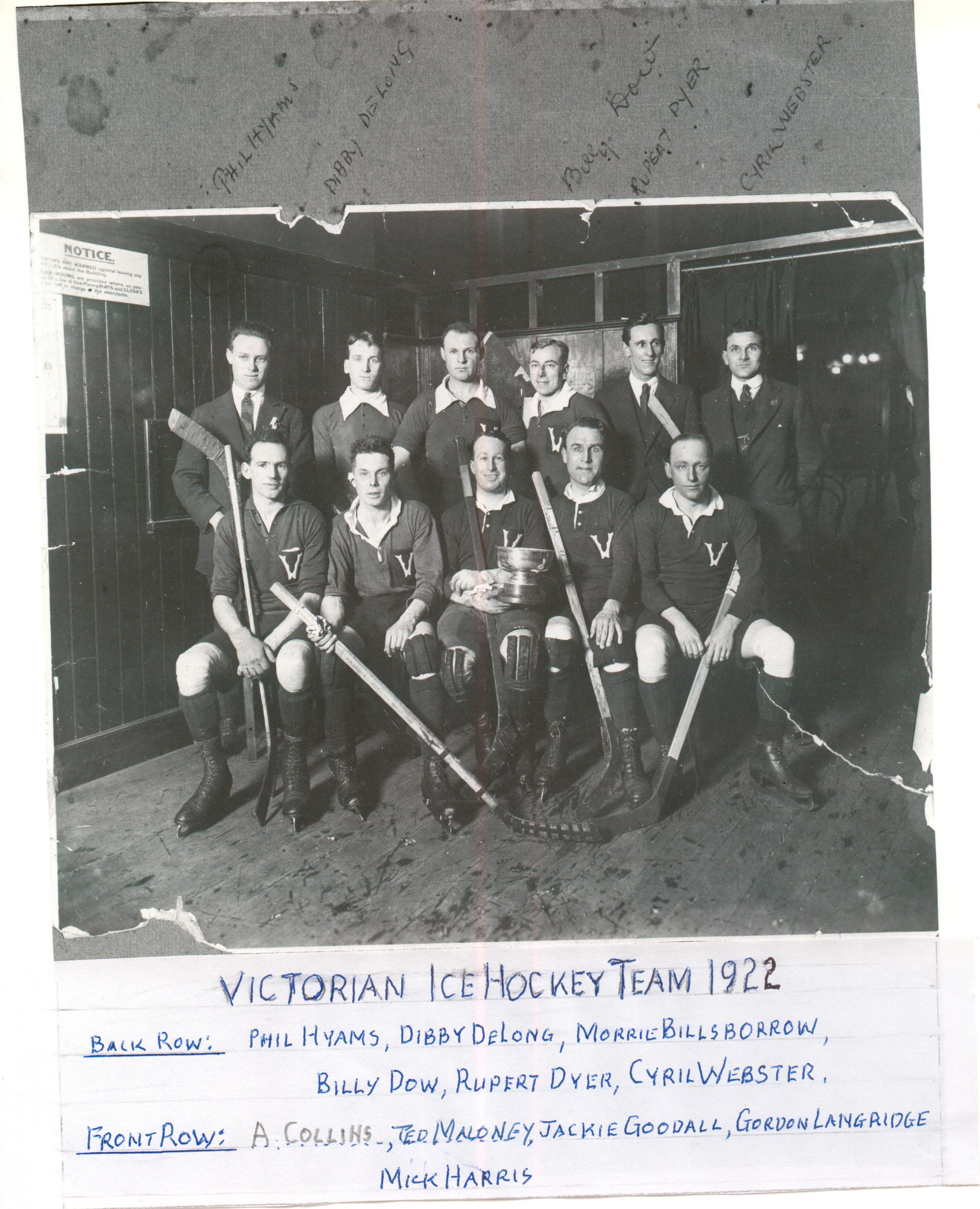 1922 The state team representing Victoria after winning the Goodall Cup.